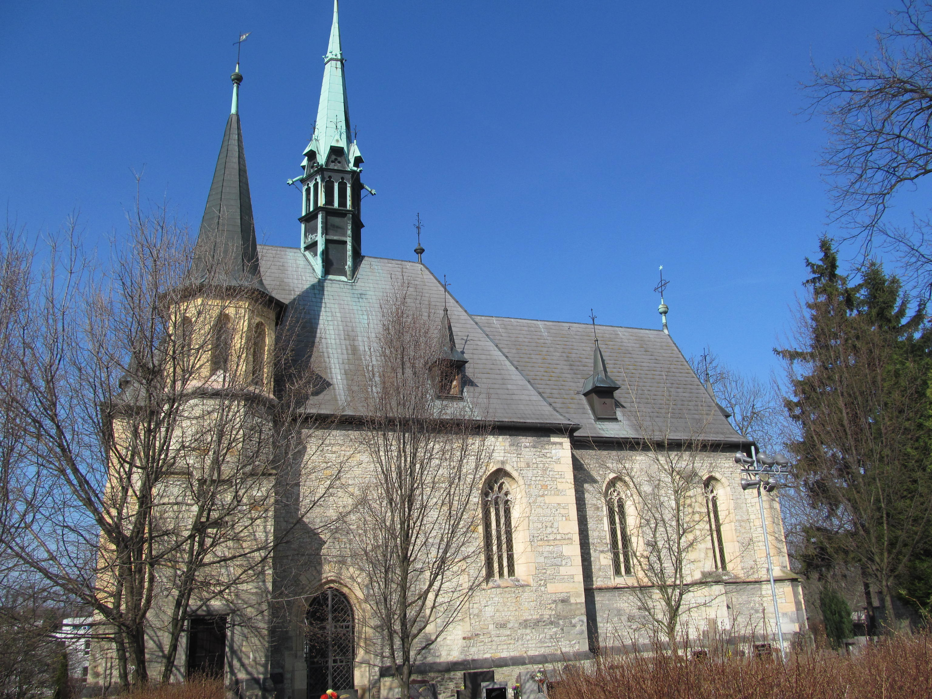 Church of Saint Peter in Louny from south